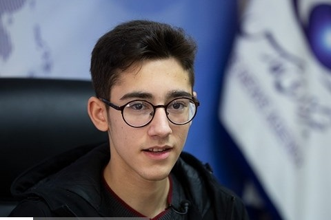 Aryan Gholami